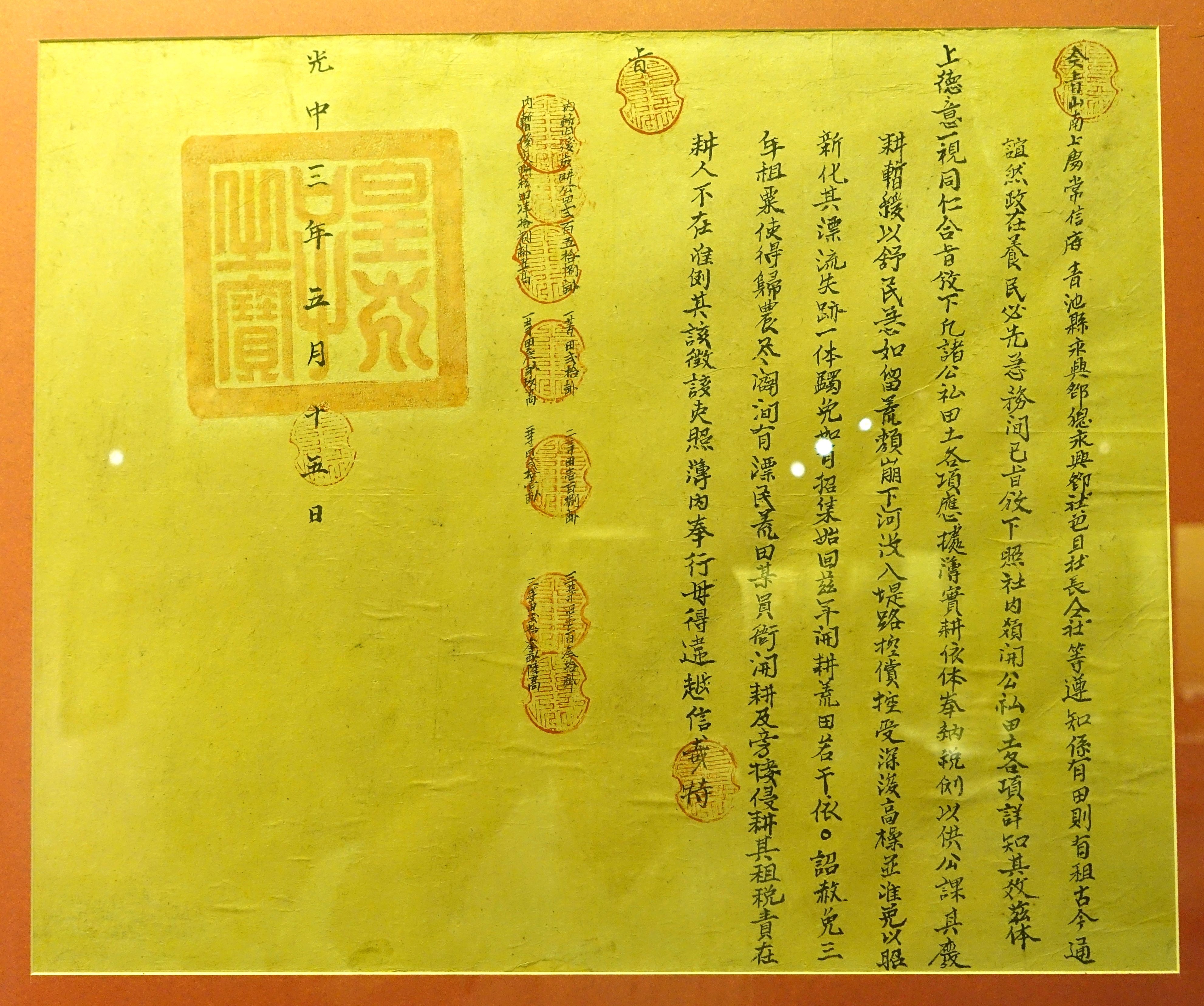 Exhibit in the National Museum of Vietnamese History, Hanoi, Vietnam. This artwork is old enough so that it is in the public domain.